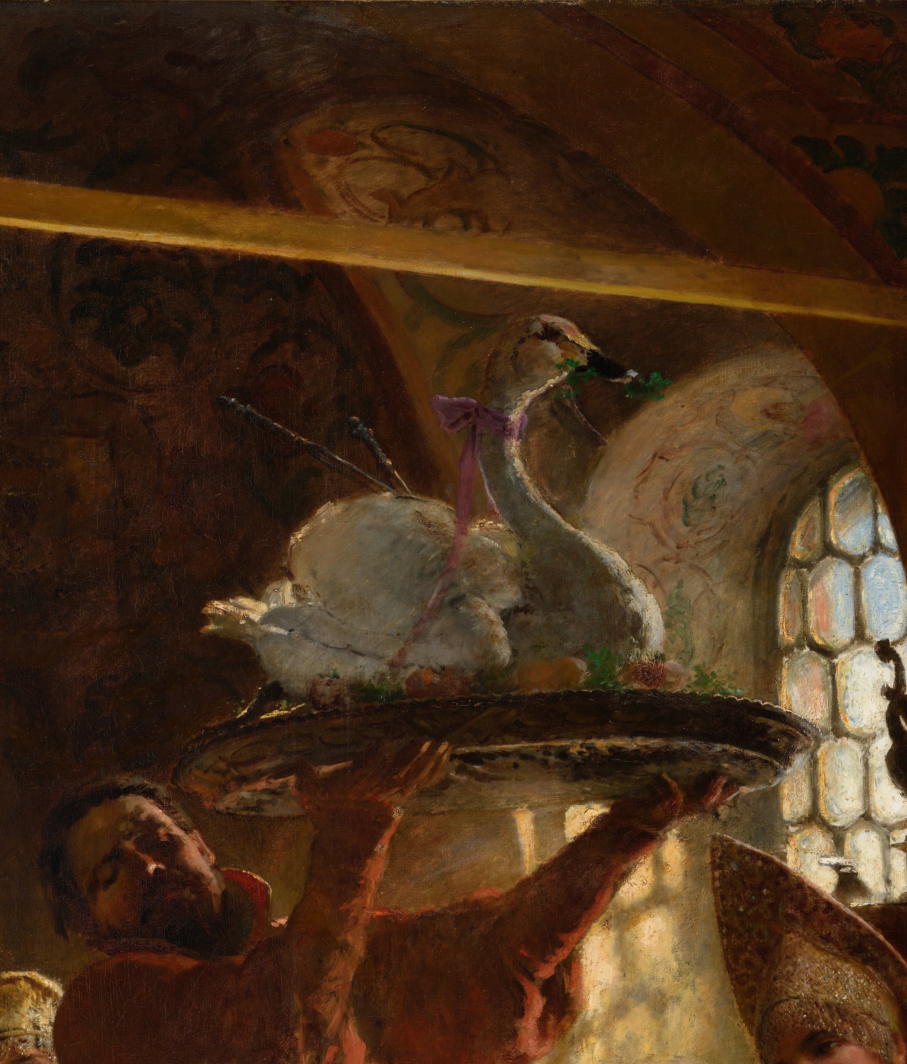 Detail of the swan dish. "This large painting depicts one of the most important social and political events of old Russia, a wedding uniting two families of the powerful boyar class that dominated Muscovite politics in the sixteenth and seventeenth centuries." (Verbatim from original description, to see more)